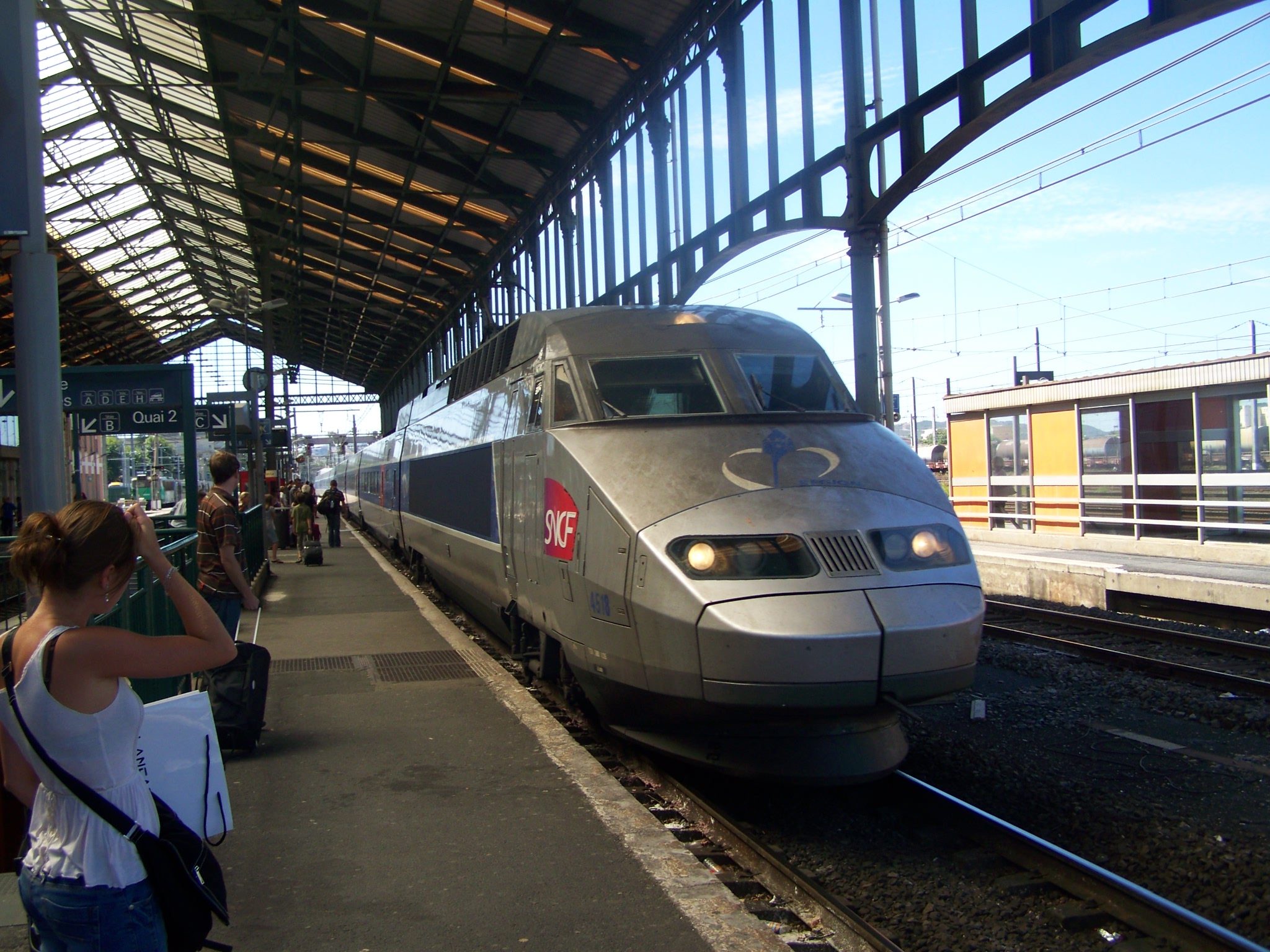 French TGVs coming from Perpignan in Pyrénées-Orientales and bound for Lille (Nord) and Brussels (Belgium) are stopping at Narbonne station in Aude.